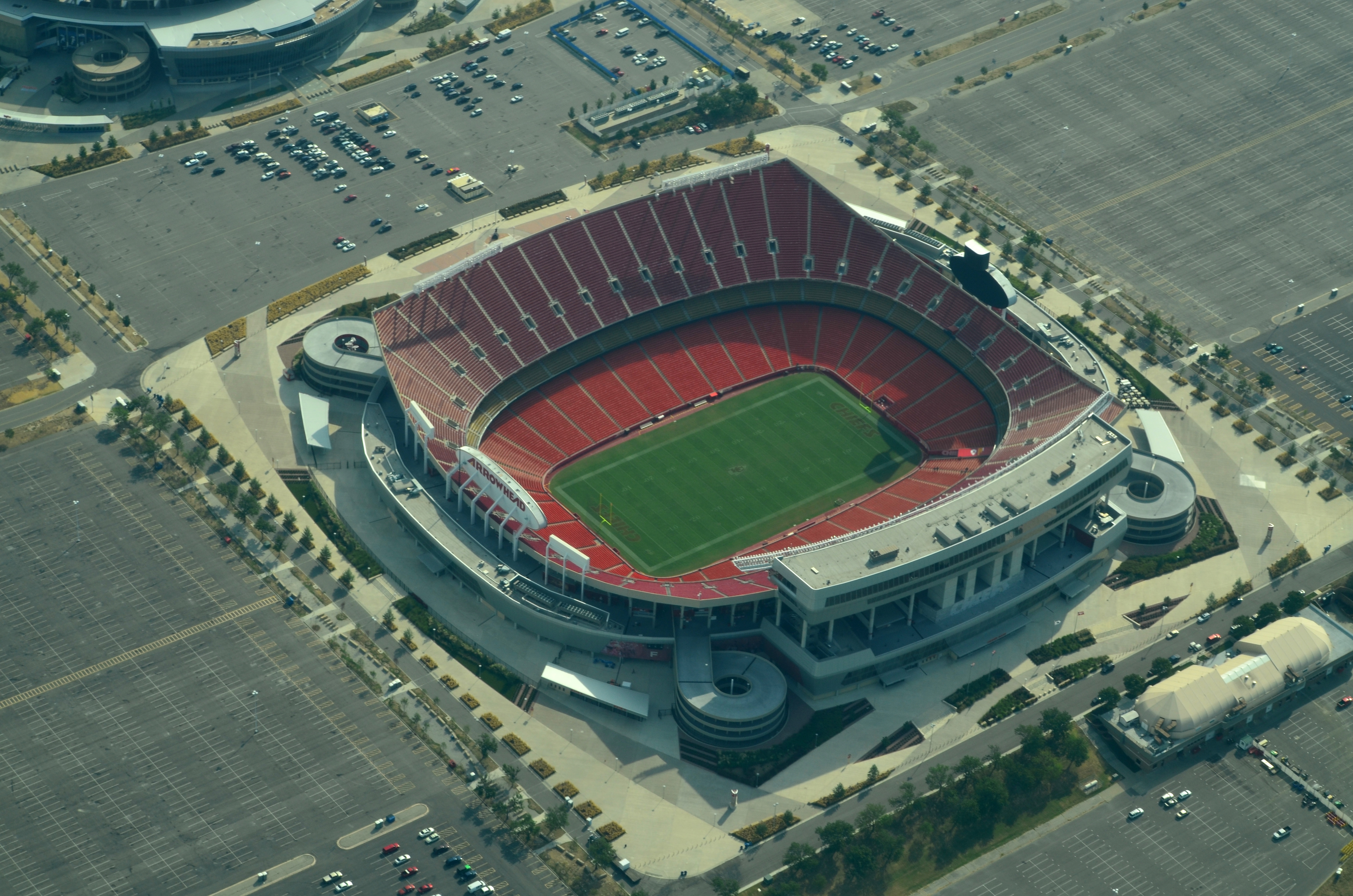 Aerial view of Arrowhead Stadium 08-31-2013